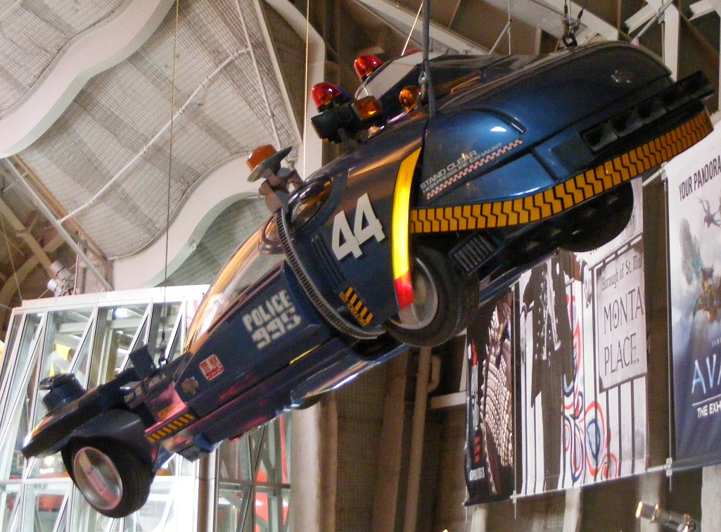 There are better pictures on the web of the Blade Runner car. What a difference to see this in the day light than in the dark, rainy, neon highlights of a dystopian future. The Experience Music Project (EMP) Museum is something to see. Someone put in a lot of effort to make a building worthy of exploring every staircase, every corridor, every doorway... It took me an hour to find the exhibit I was seeking.